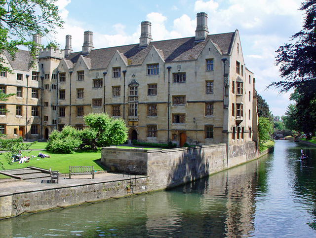 Bodley's Court, King's College, Cambridge Looking south east from the end of King's Bridge. Queens' Bridge can also just be seen in the photograph.